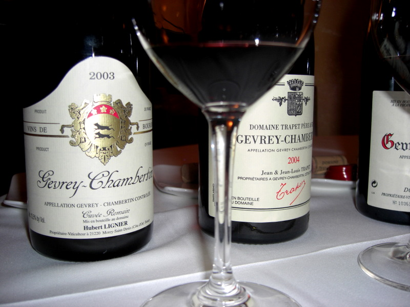 In the glass in partial view is the Hubert Lignier Gevrey-Chambertin 2003. French wine from the Cote de Nuits region of Burgundy.